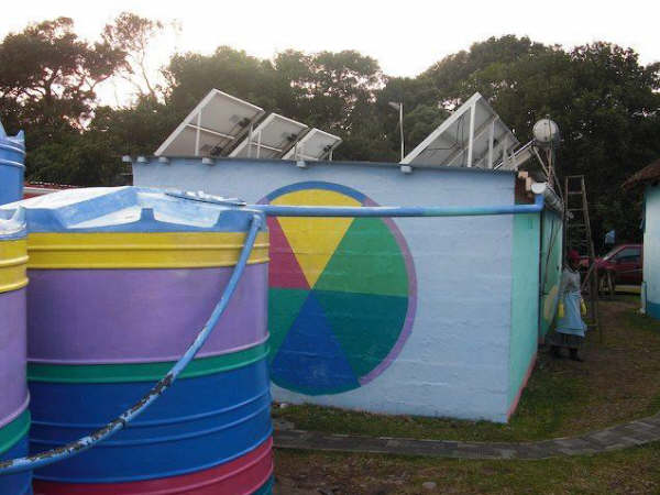 As mentioned during our conversation please receive pictures from the Bulungula project (Eastern Cape - Wild Coast). This place was mentioned by Richard Holden on the ecosan community forum on June 4th'08. Actually, in this place greywater and urine from 5 UDD toilets + 2 waterless urinals are recycled into a banana tree circle. Reed beds are also used as a treatment. They are self sufficient with solar + wind power and have a good rainwater harvesting system. Faeces will be composted once they will switch to sawdust. So far, faeces and sand are buried in the forest. Water and sanitation projects are developed in the community. (from A. Naranjo)